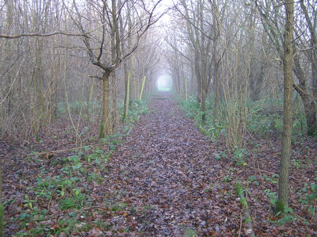 Track through the woods...